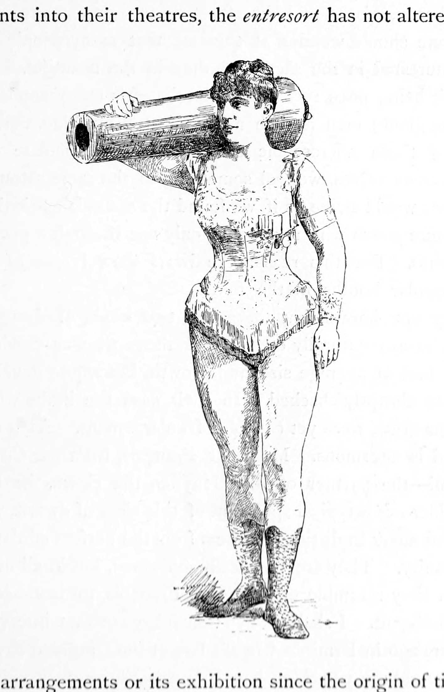 Illustration from the book given under "Source"